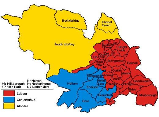 Ward map of Sheffield Council with political colouring for the 1982 election.